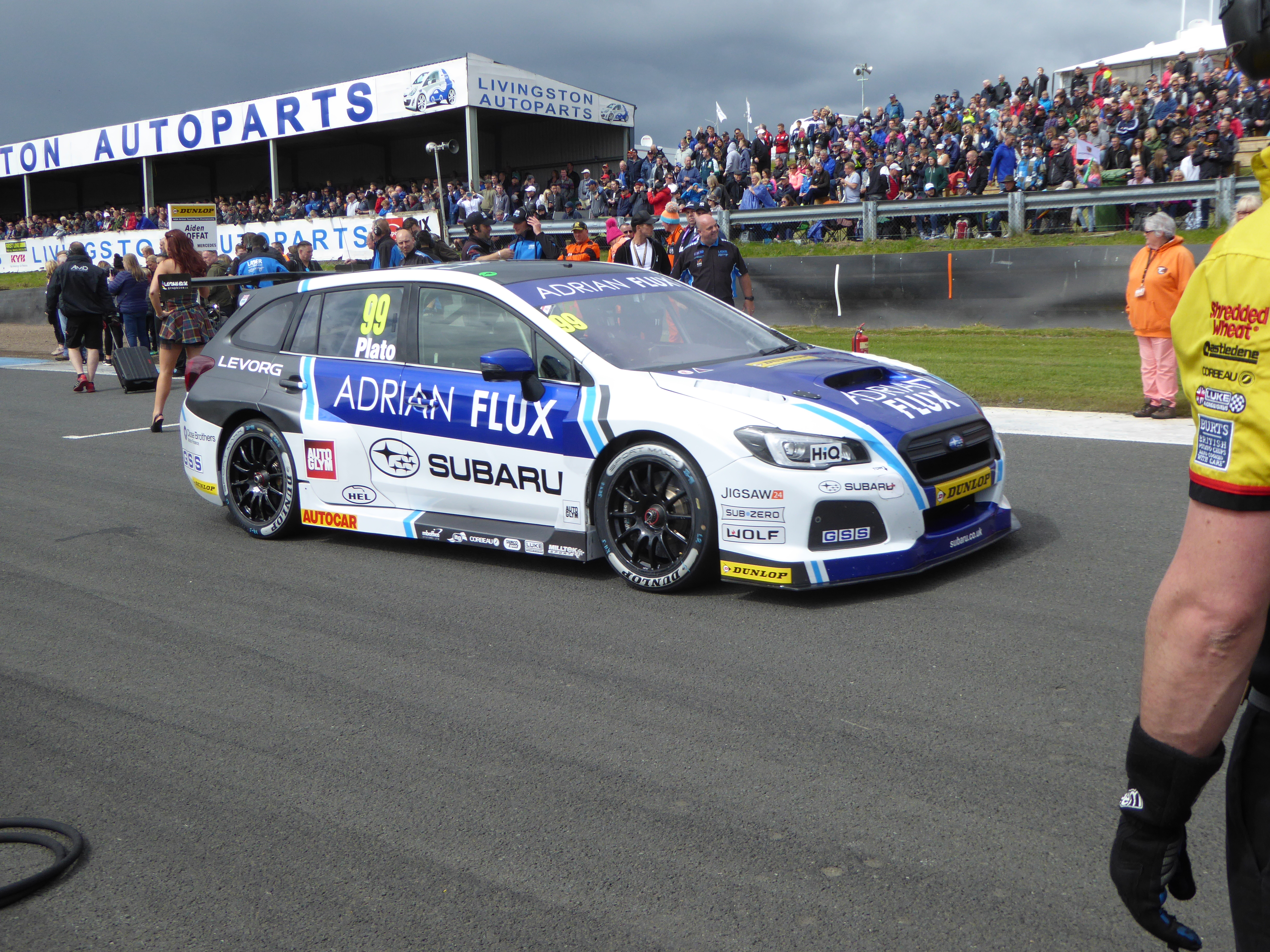 Jason Plato (Adrian Flux Subaru Racing), at the Knockhill round of the 2017 British Touring Car Championship.